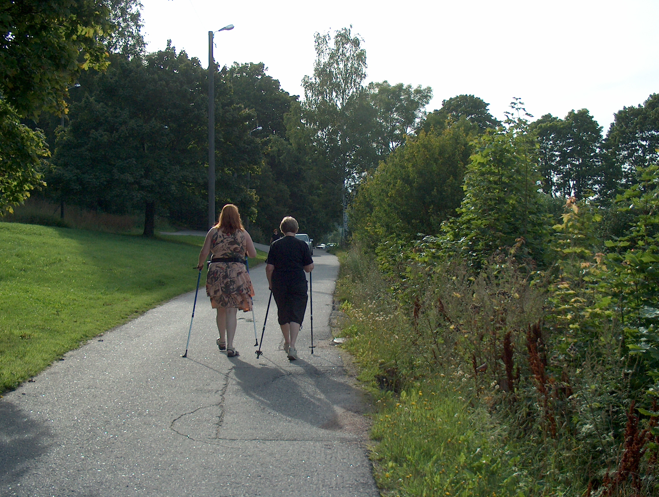 Nordic walking in Helsinki, Finland